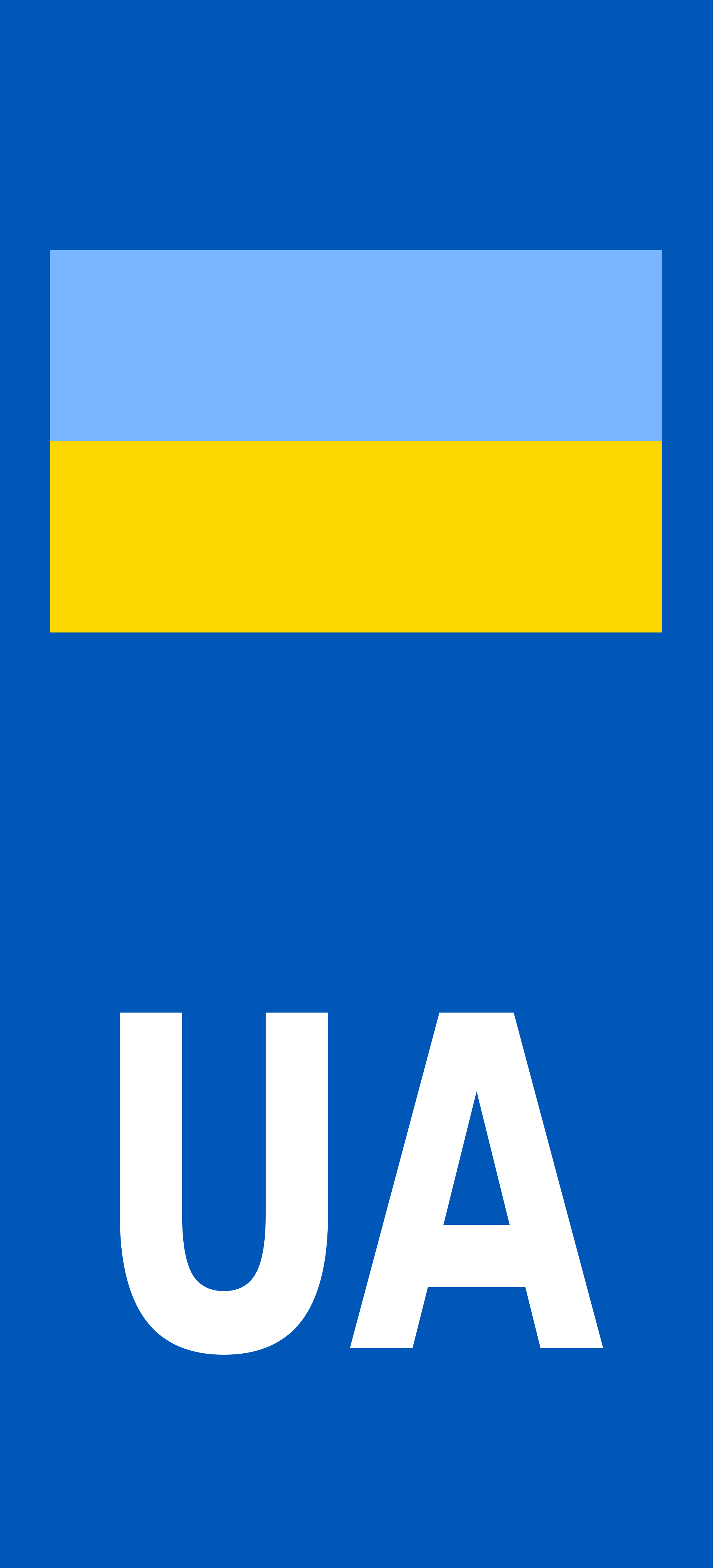 License plates of Ukraine (2015)